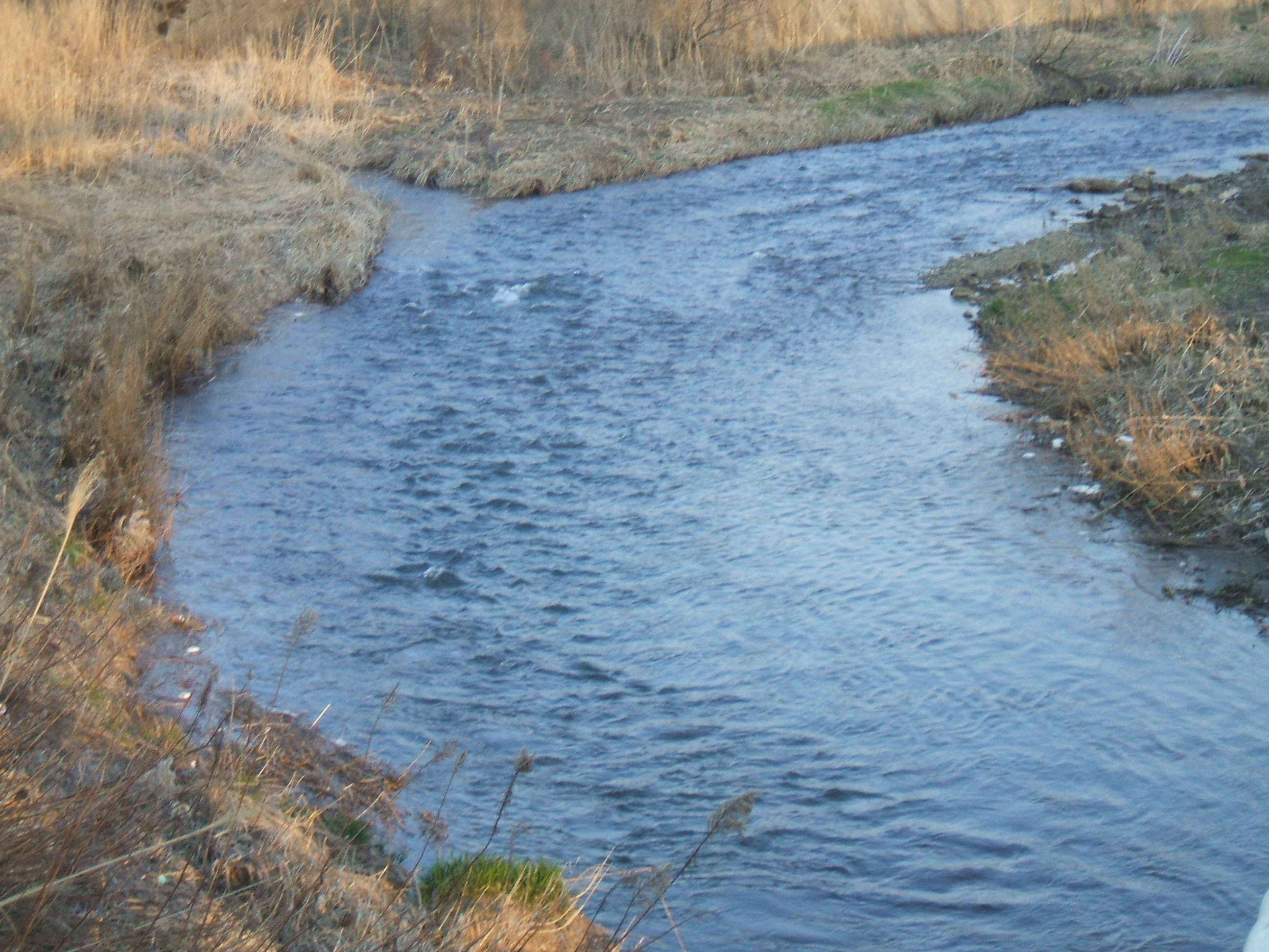 This is a landscape of Sesenagigawa-river at Aizuwakamatsu, Fukushima.